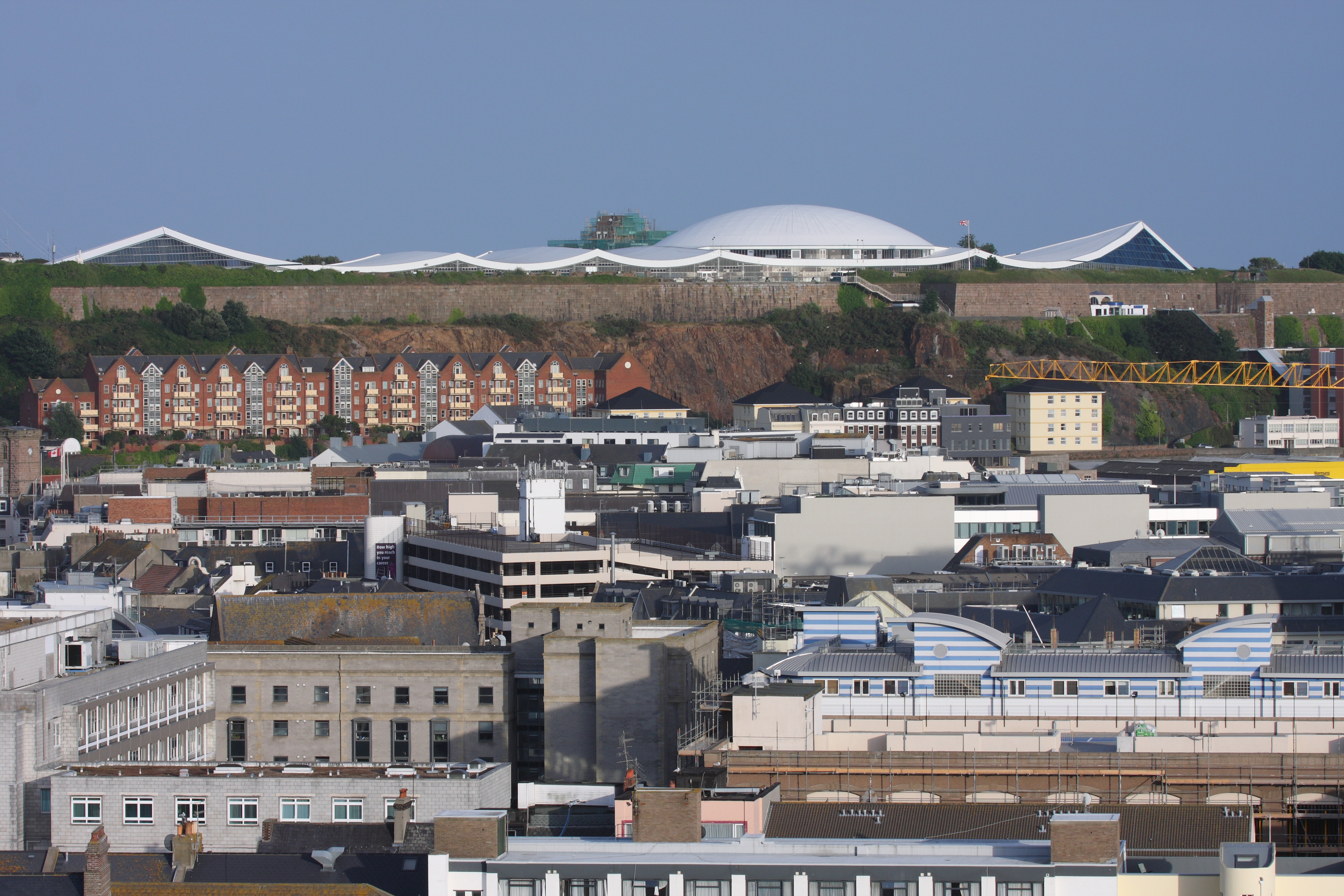 View to Fort Regent from West Mount, St. Helier, Jersey.